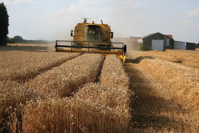 Harvesting corn with a New Holland TX66 combine on a hot July afternoon, Harby, Nottinghamshire, UK